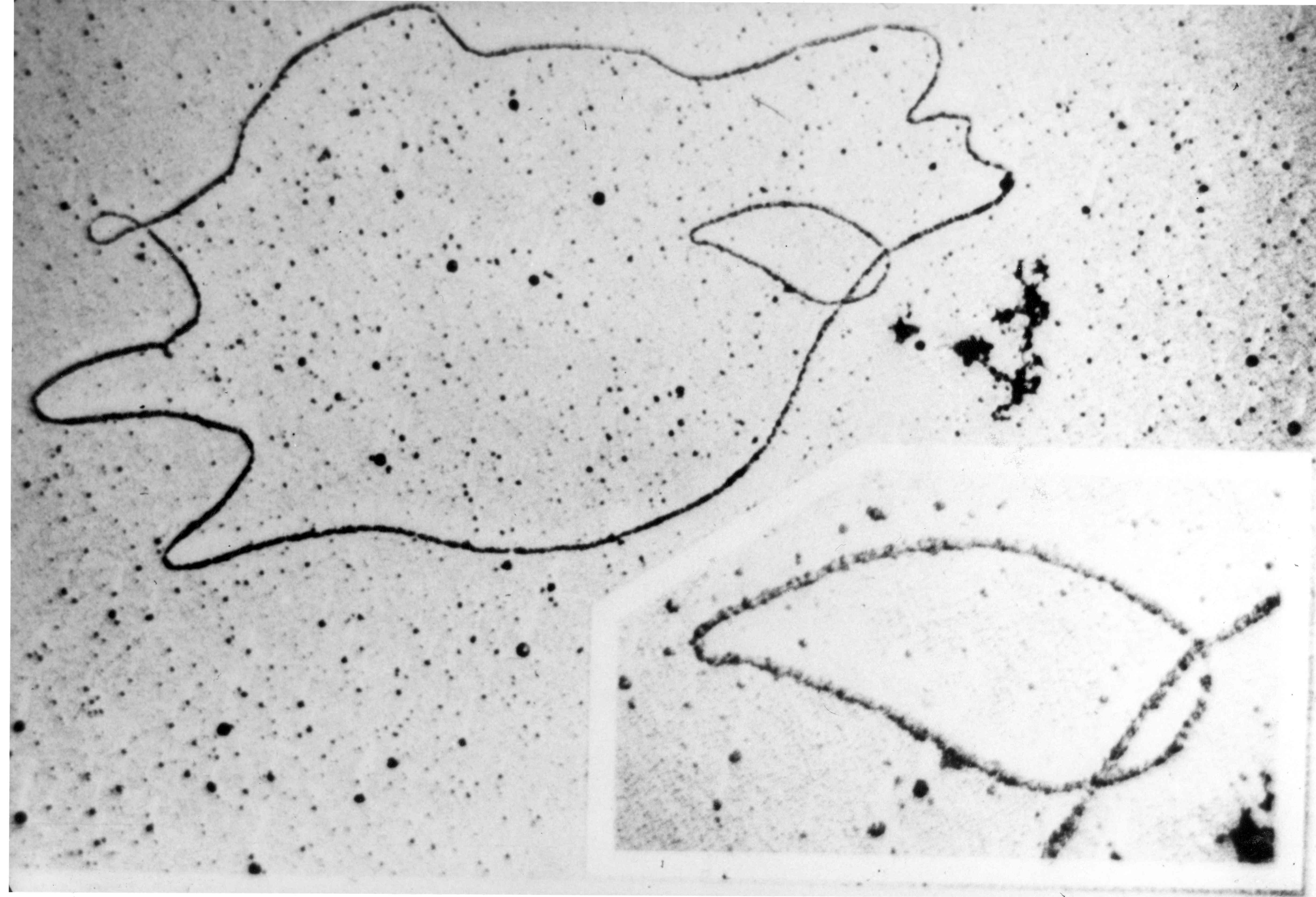 Title: DNA under an electron microscope Image ID: 3576 Photographer: Unknown Restrictions: Public Domain [1]